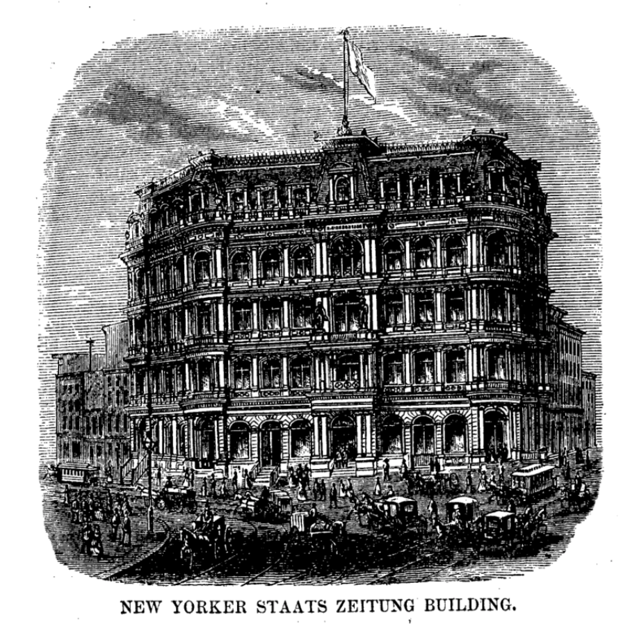 An engraving of the New Yorker Staats-Zeitung building in 1876